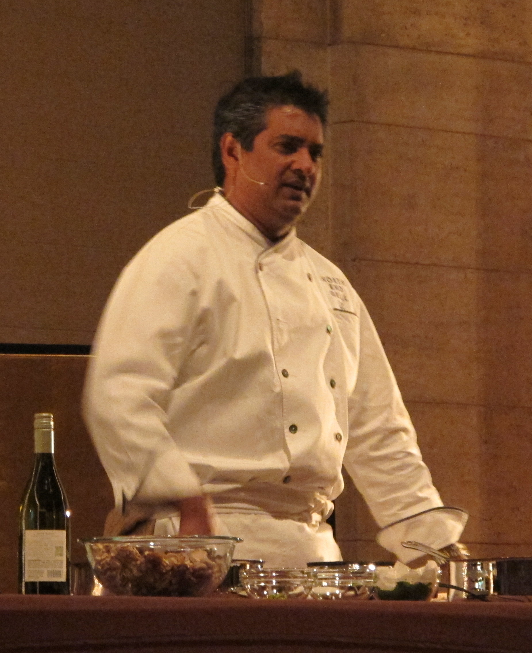 Floyd Cardoz demonstrating Indian cuisine